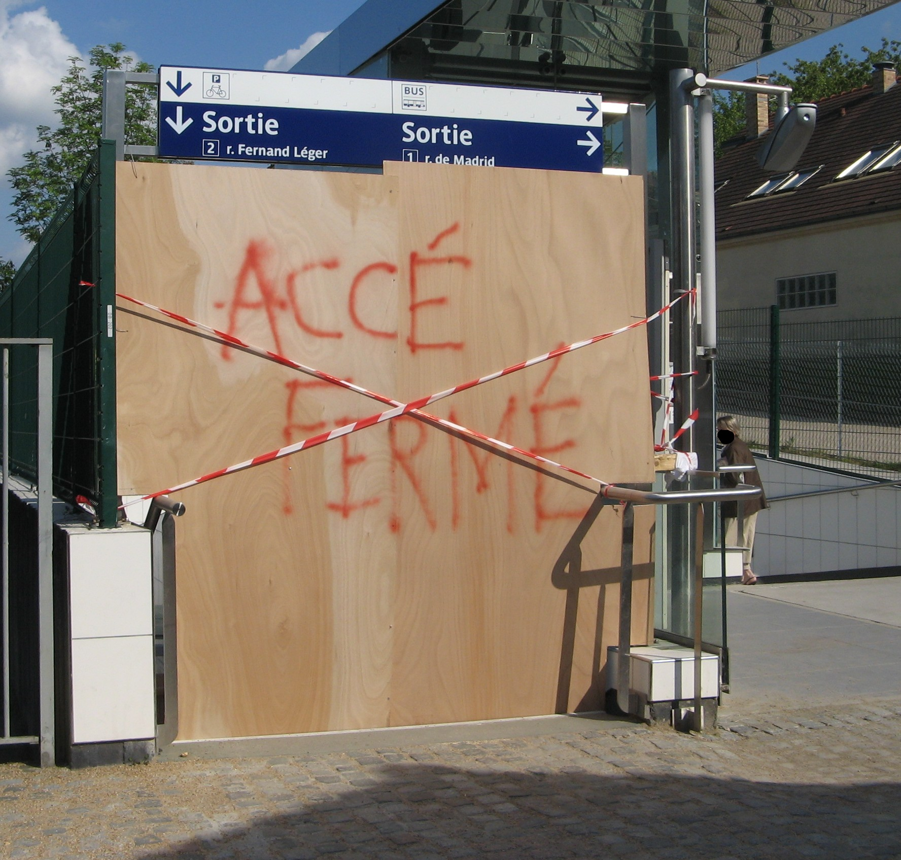 Misspelling of the word accès meaning access, on a public sign near Paris, France.